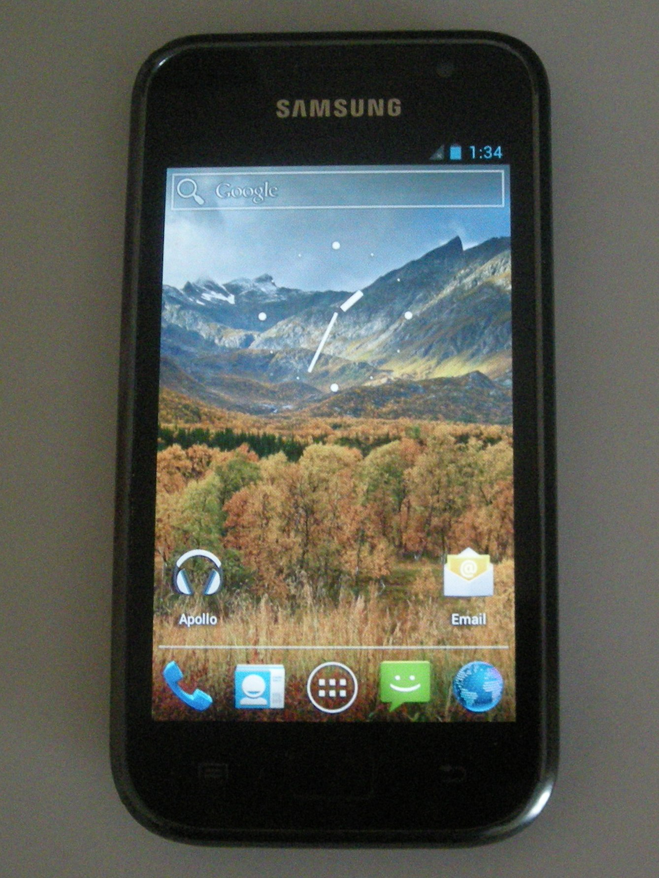 Replicant homescreen on Galaxy S